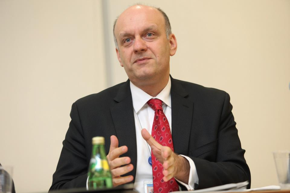 Copyright: Michael Dames, New York, USA